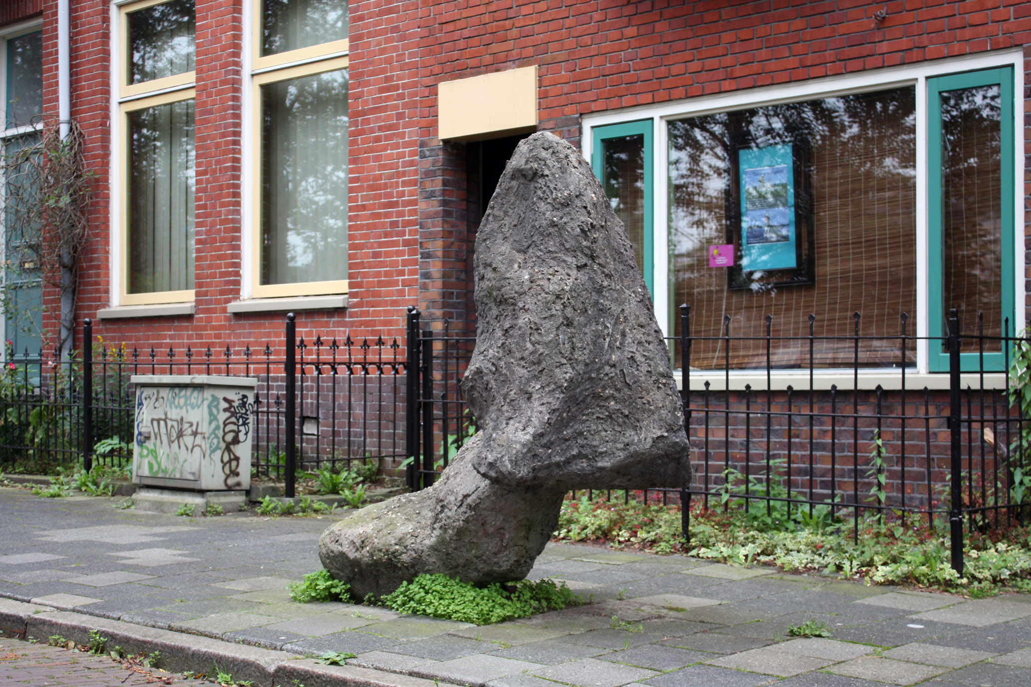 Unnamed sculpture by Herman Lamers in Groningen, the Netherlands